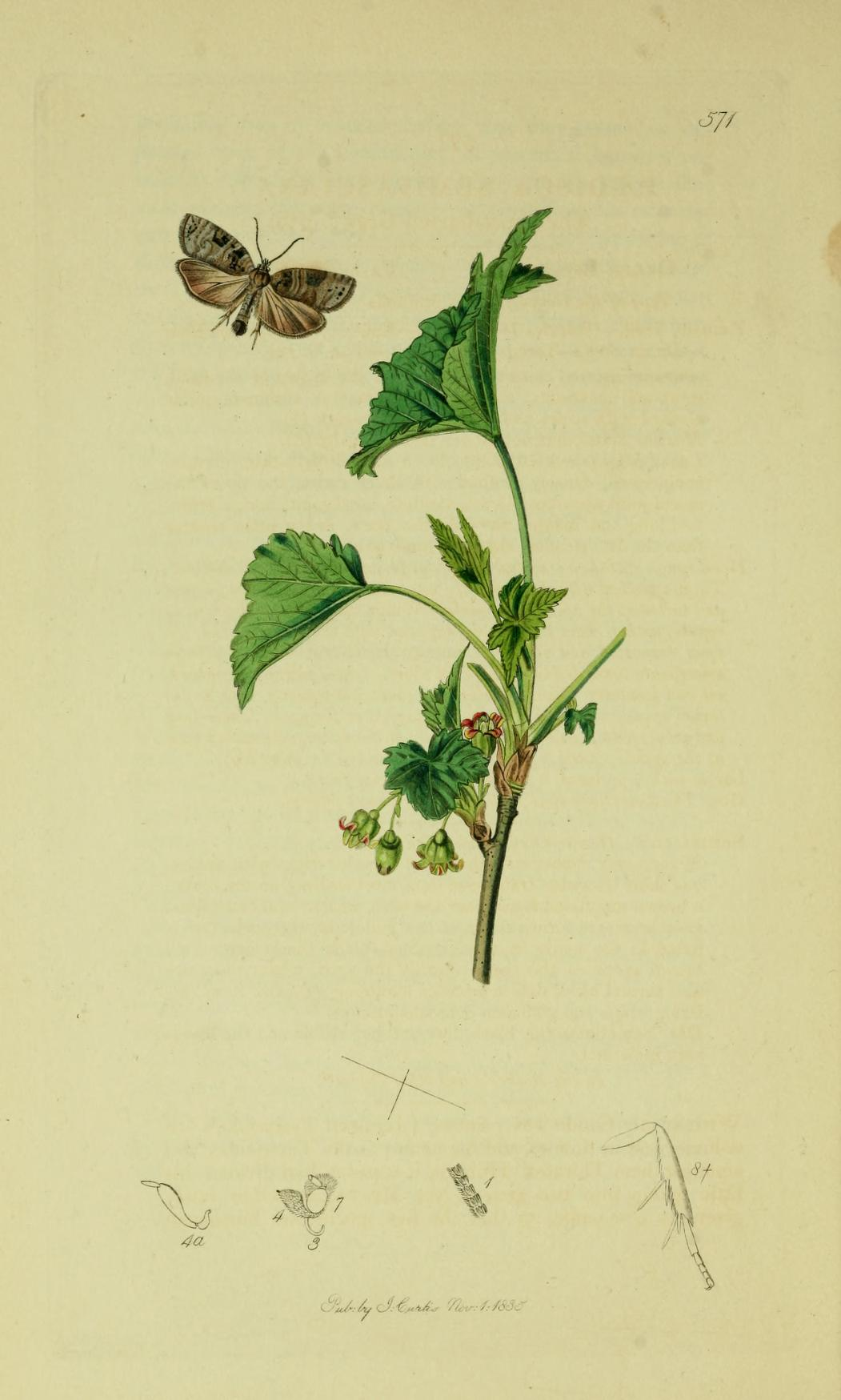 An illustration from British Entomology by John Curtis. . Lepidoptera: Paedisca semifasciana or Apotomis semifasciana (Short-barred Grey Marble)